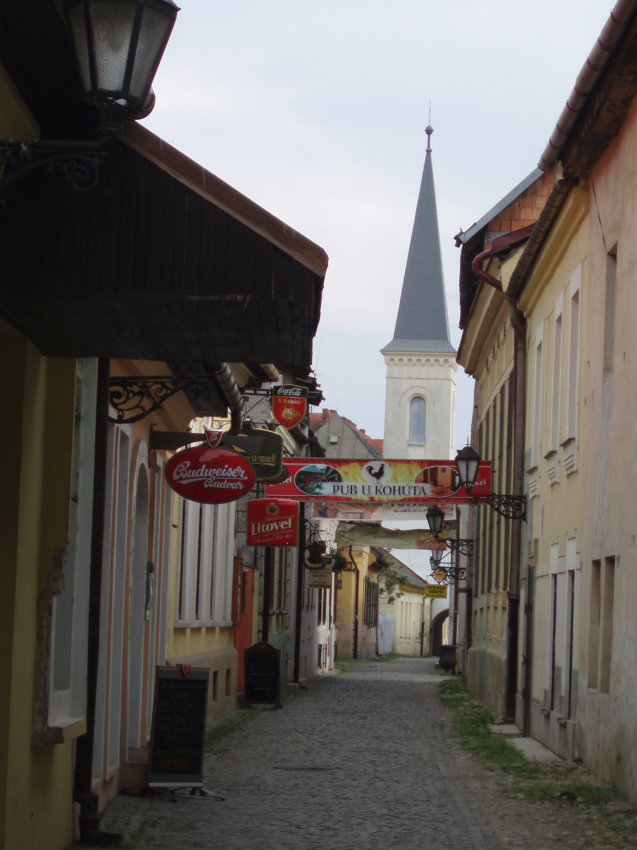 Hrnciarska street Kosice